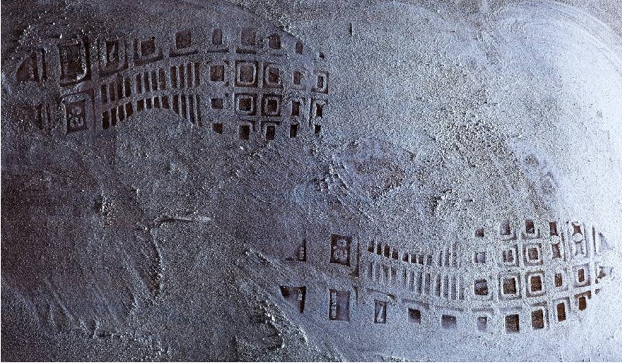 Footwear impressions left at a crime scene. This example is a negative dust print where the shoe has removed dust from dusty floor.